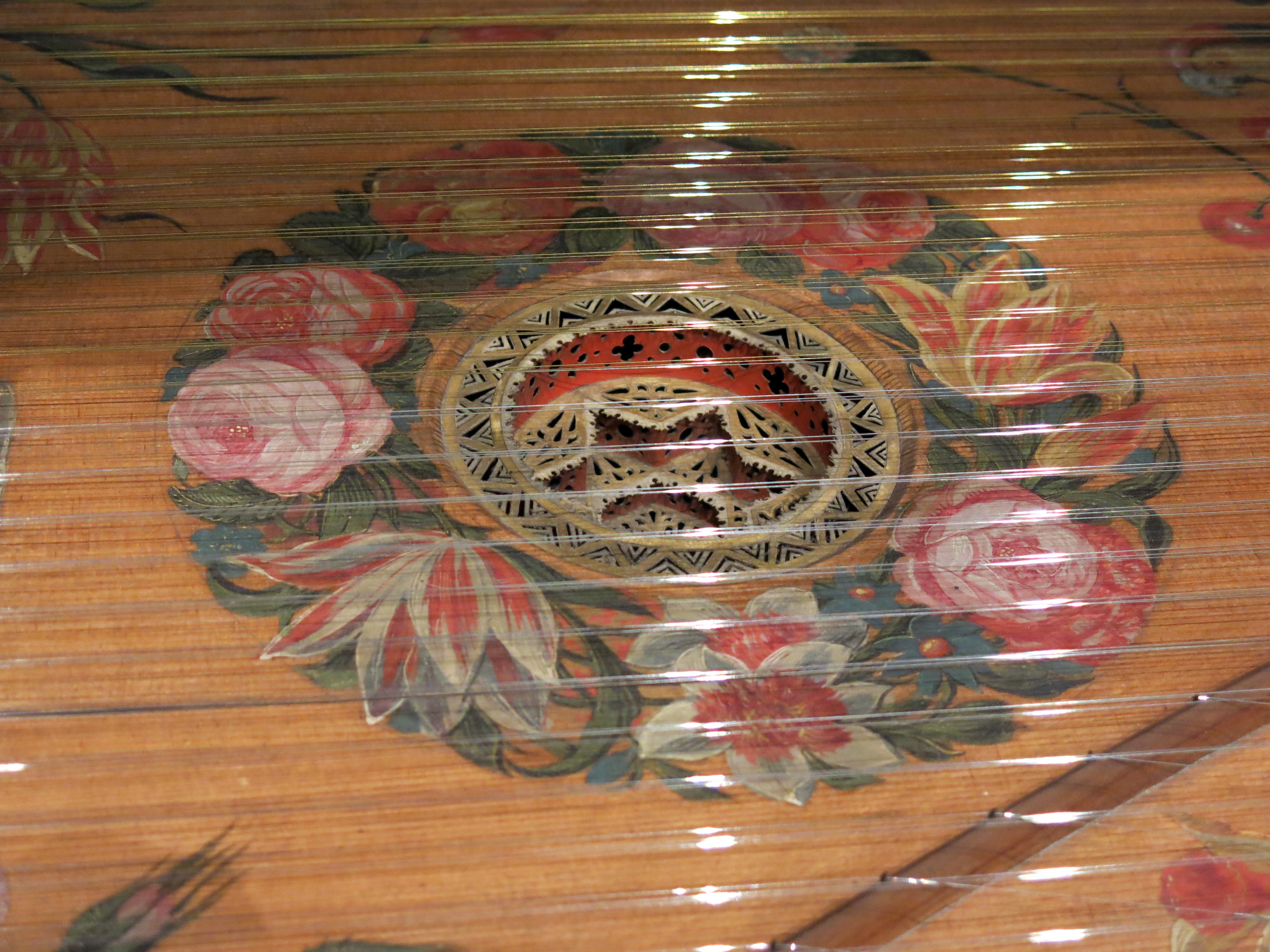 Harpsichord, Karl Conrad Fleischer, Hamburg, 1720 (MDMB420)